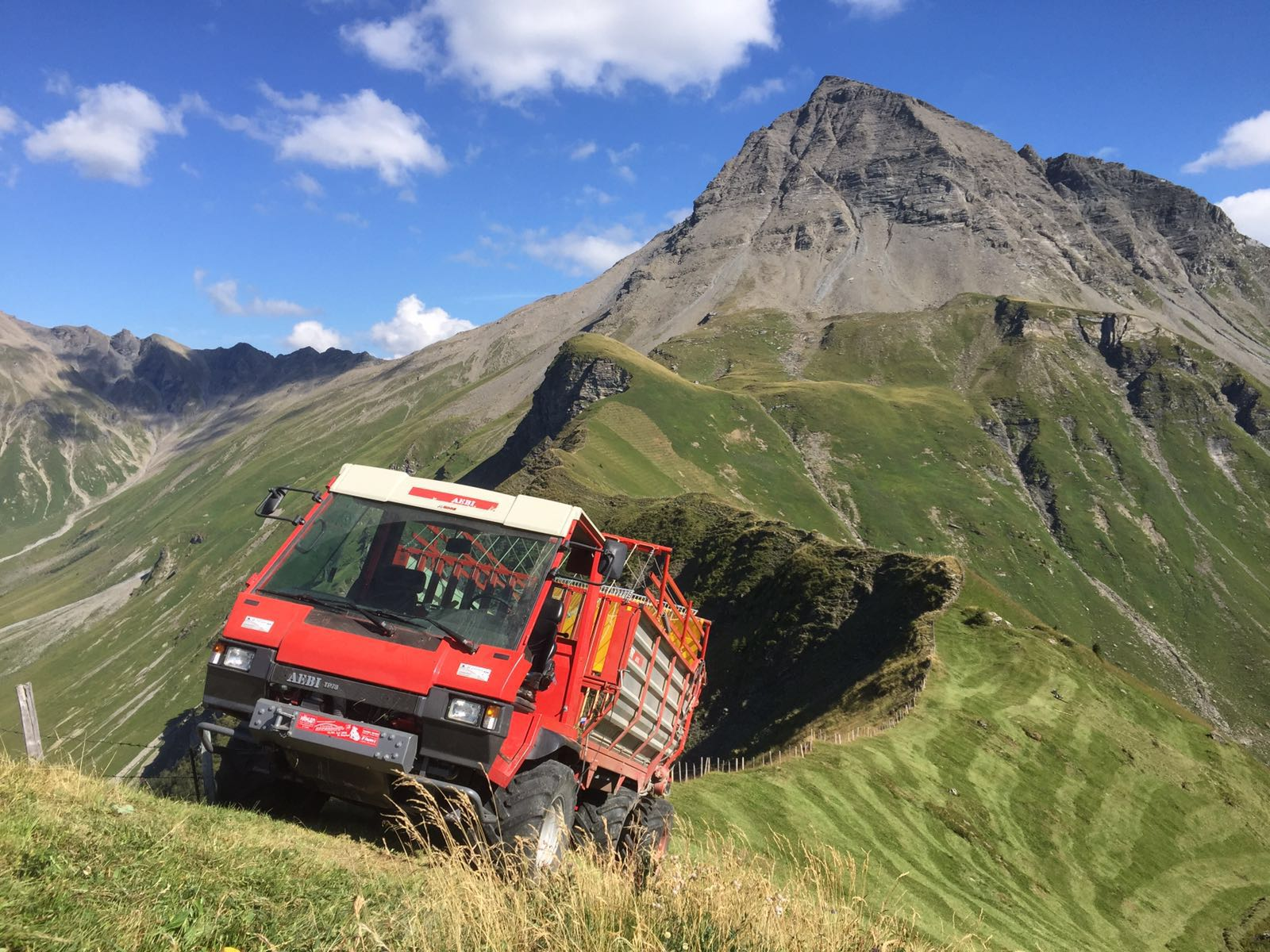 Haycart on the crete